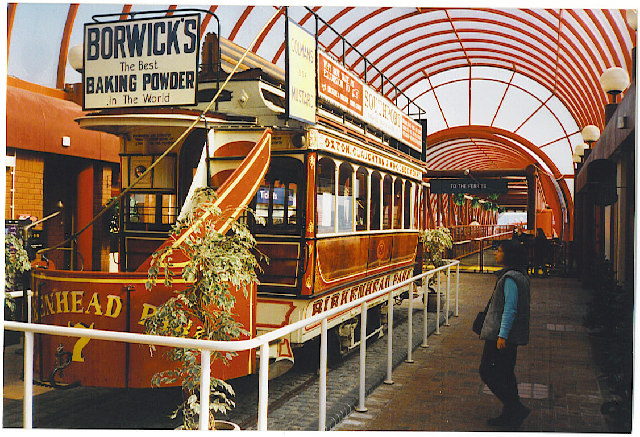 Birkenhead - old tram at Mersey Ferry Terminal